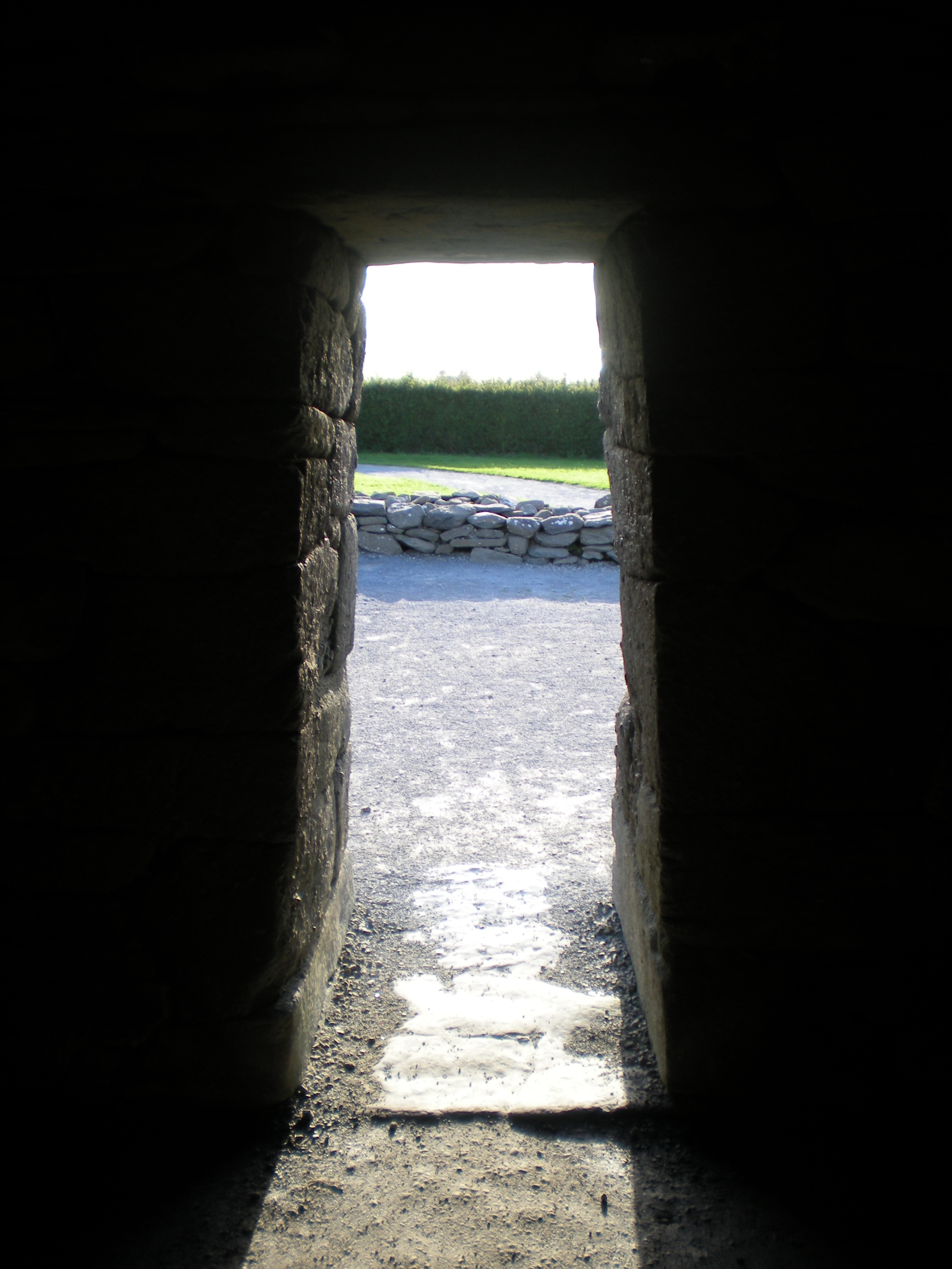 Gallarus Oratory door opening, located at Gallarus, County Kerry, Republic of Ireland